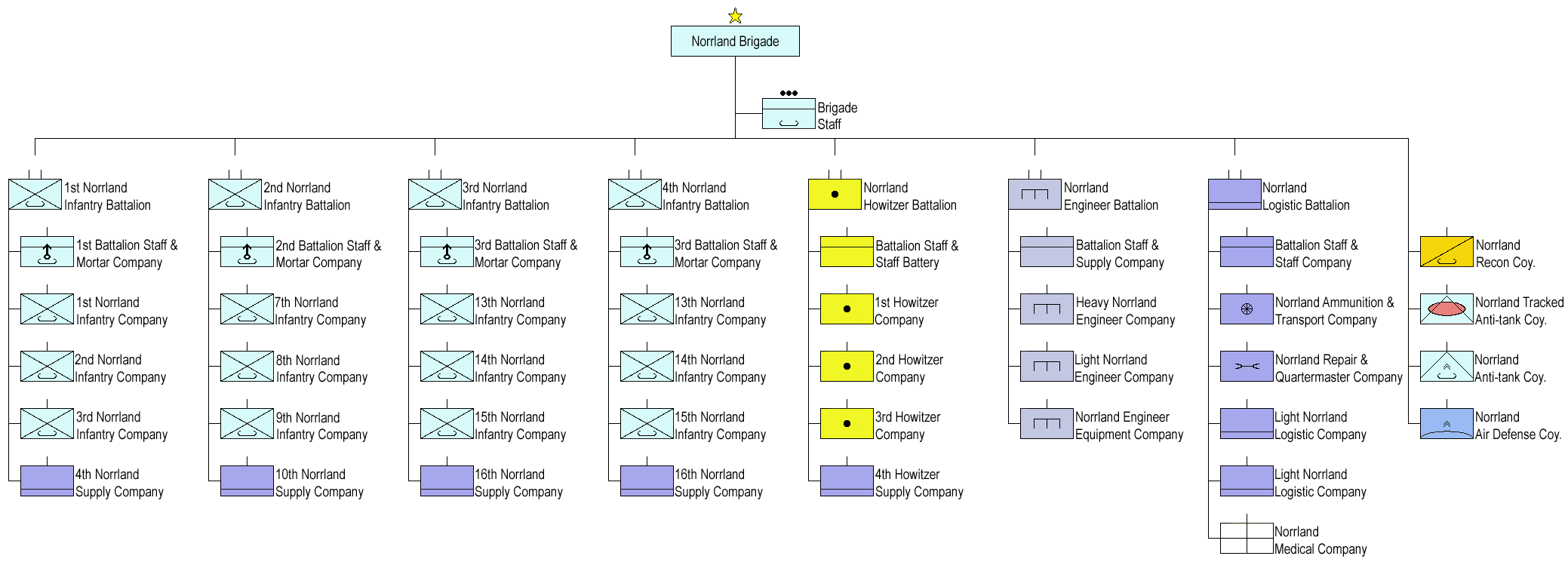 Structure of the Swedish Norrland Brigade Type 85